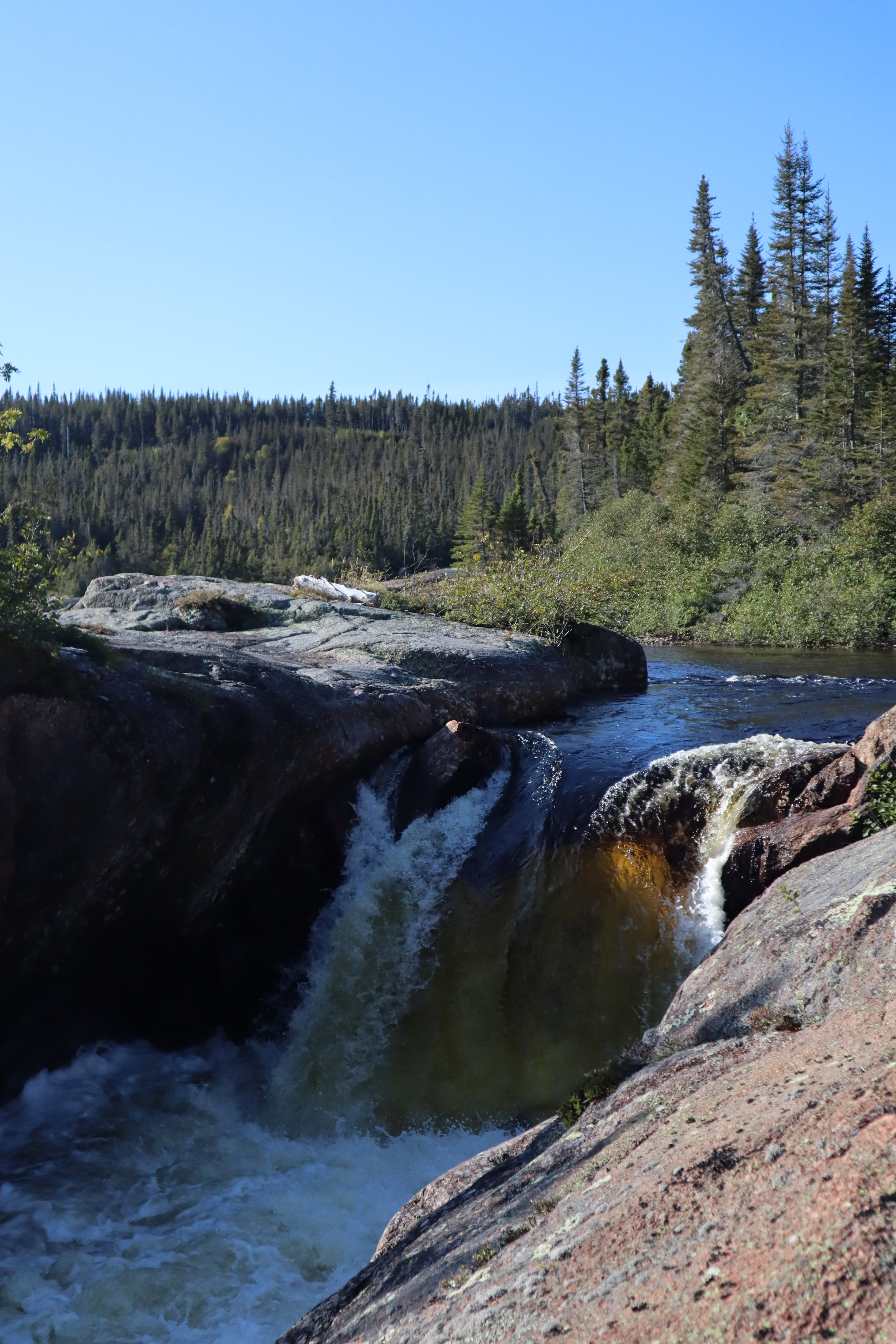 A series of falls and waterfalls on the Manitou River on the North Coast in Quebec near Sept-Îles